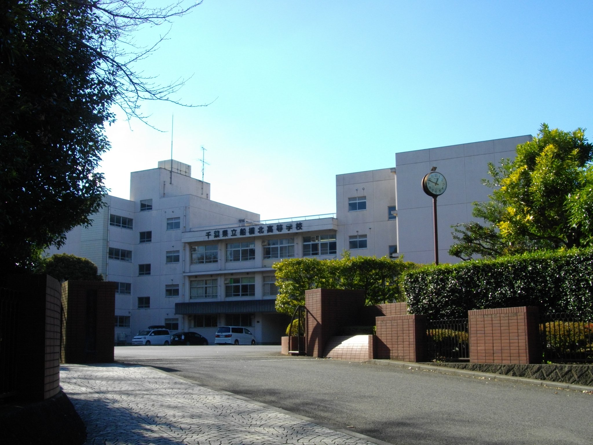 Funabashi-Kita High School